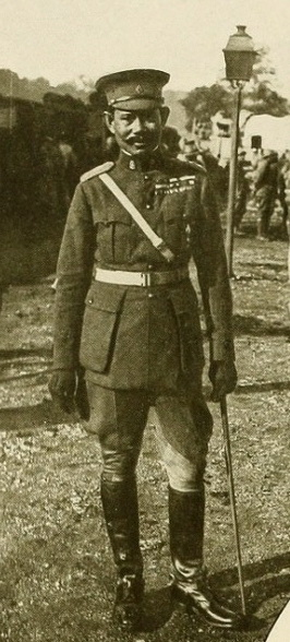 “The Commander of the Simace Troops in Europe” - from the book Fighting America's fight.